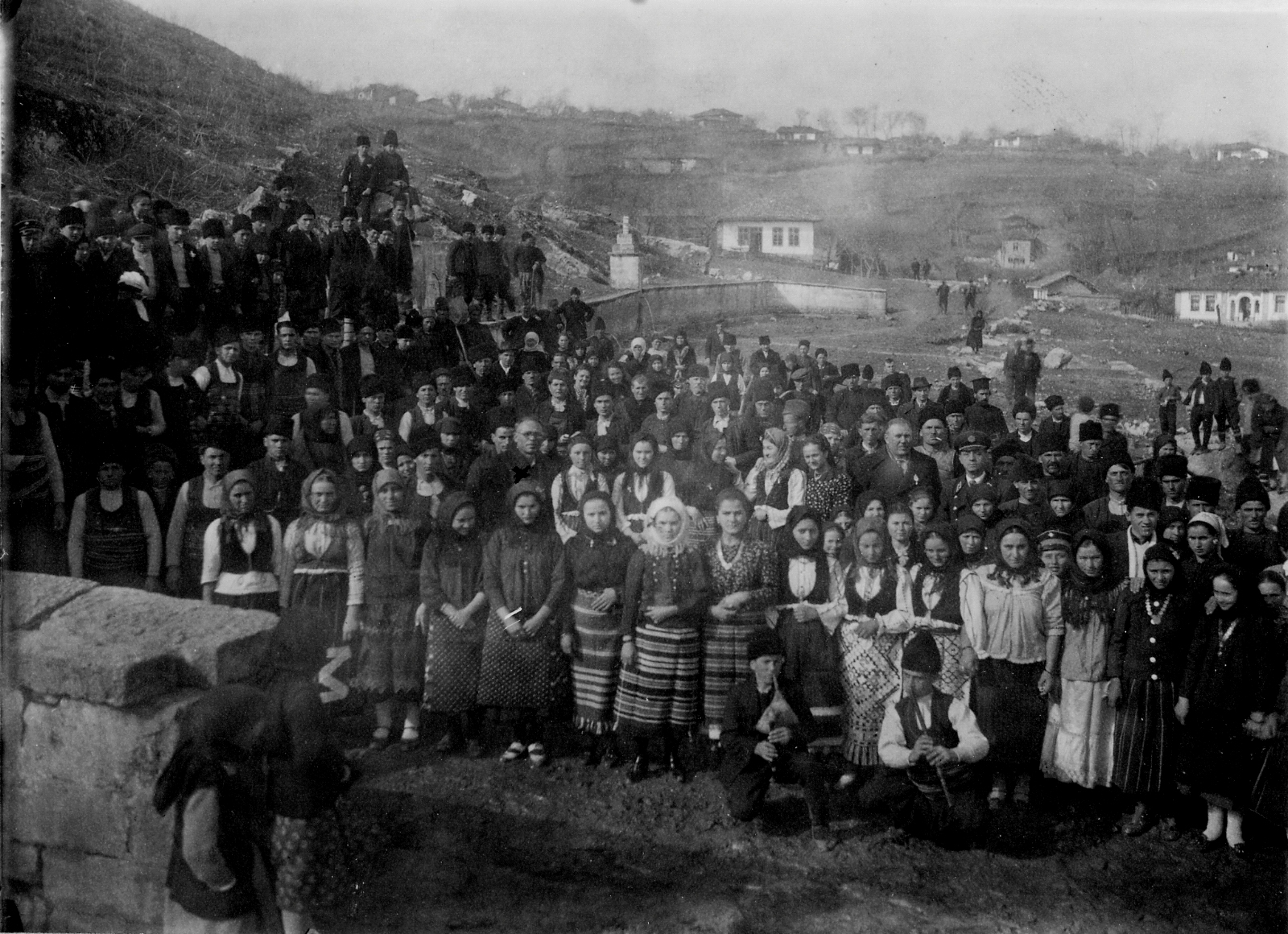 v. Kaynardzha, Silistra Province, Bulgaria, April 1941. The place where the Treaty of Küçük Kaynarca was signed